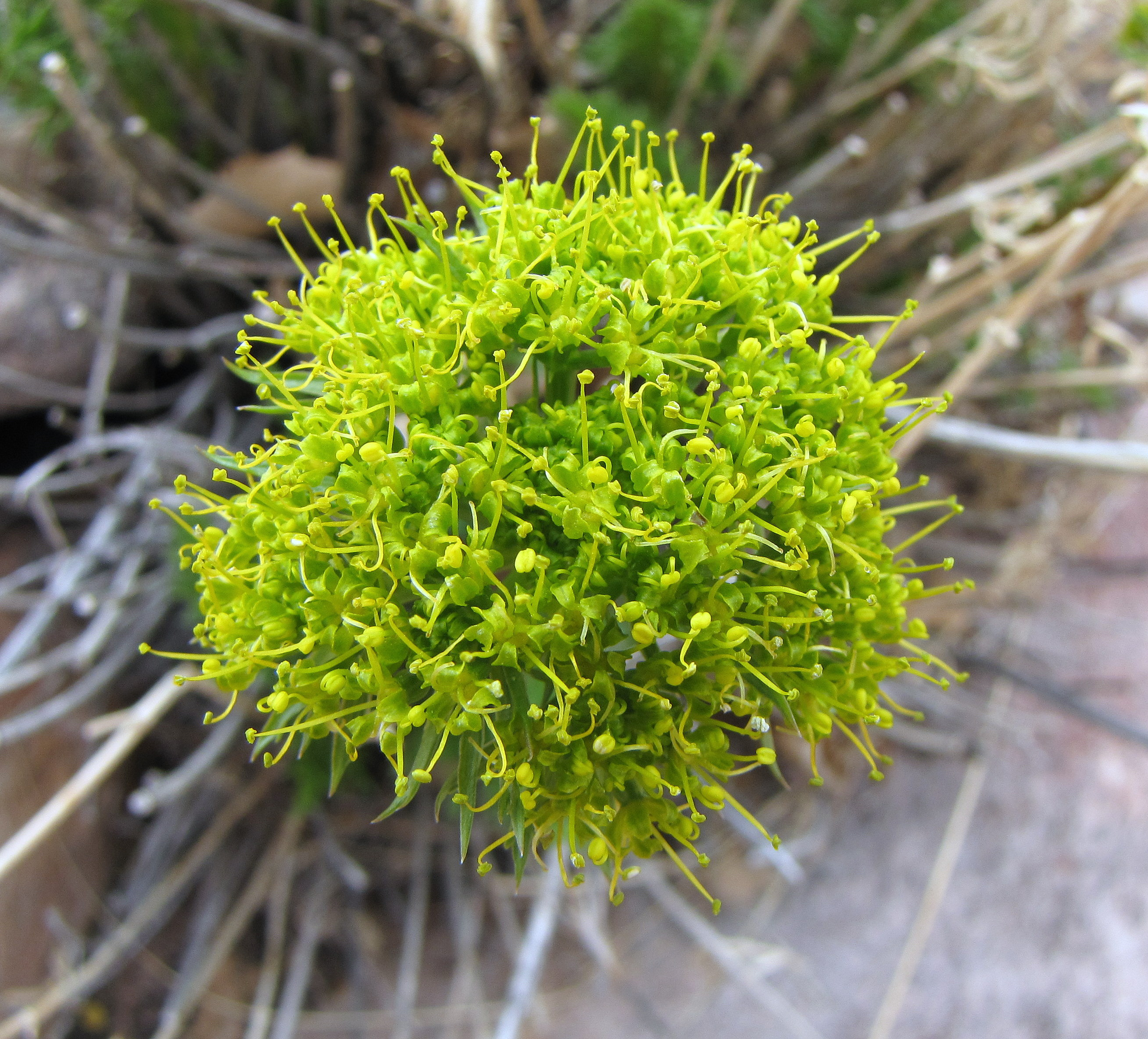 Temporary image for review at FP